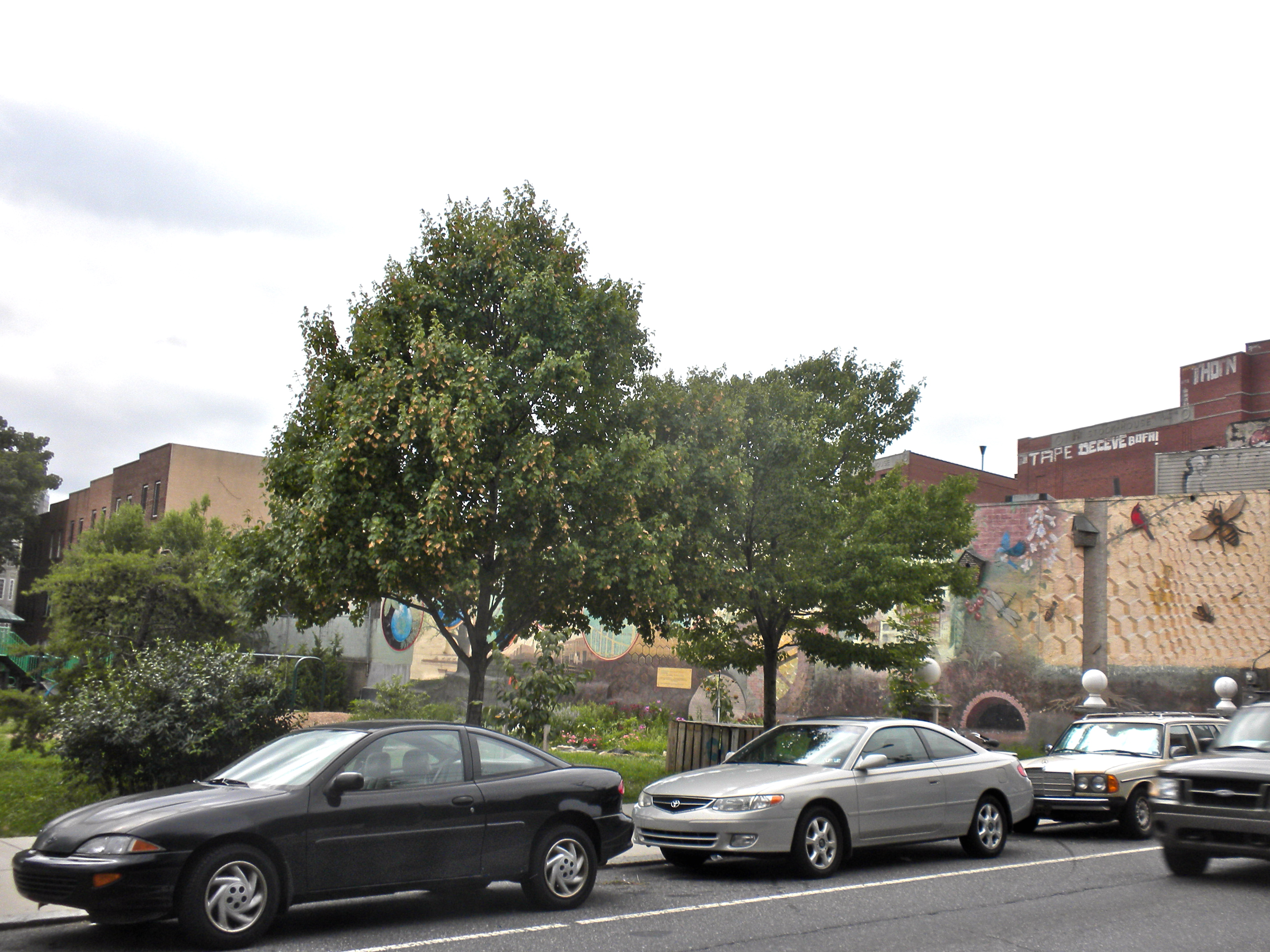 Site of leather company buildings of Burk Brothers and Company on the NRHP since November 14, 1985. At 913–916 North Third St., Philadelphia in the Northern Liberties neighborhood. Site is now a community garden. Photo faces south to the remaining buildings on the block, 901-911 (?) 3rd, which definitely are NOT in the site.